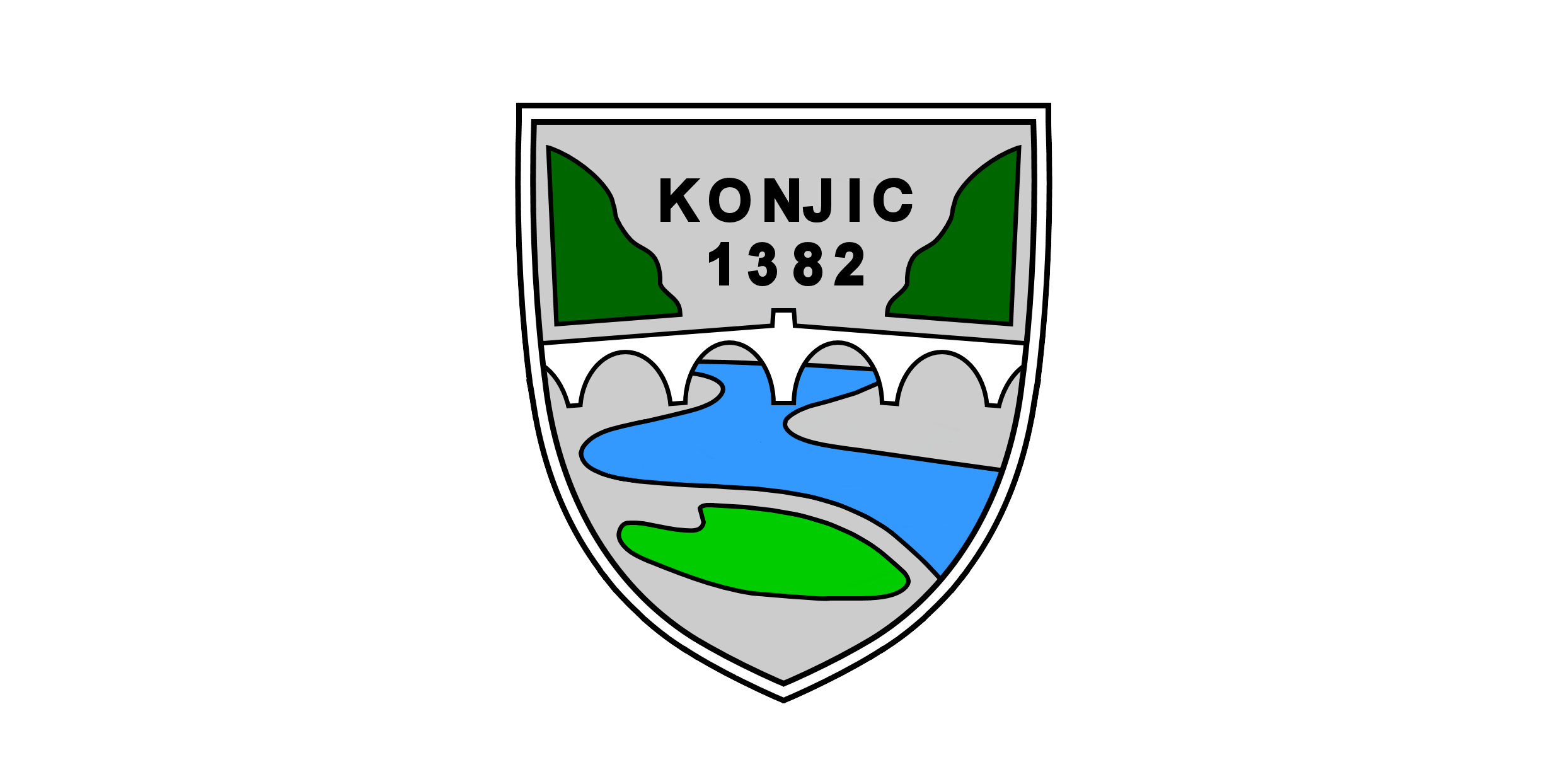 Flag of Konjic, Bosnia